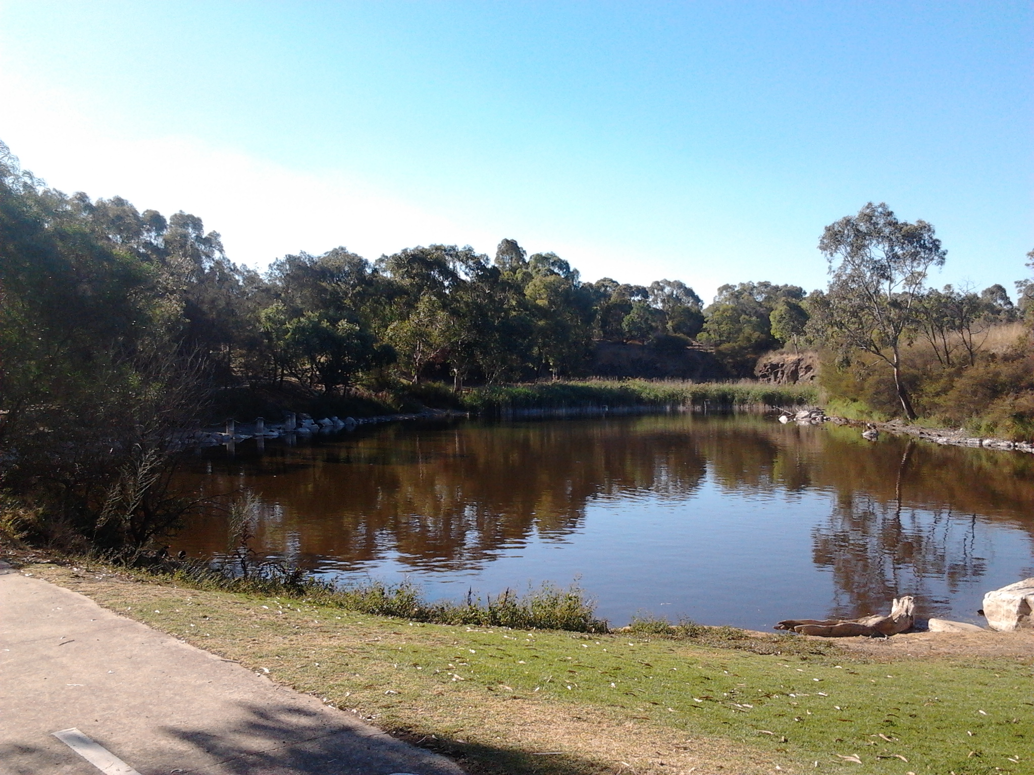 Photo of Darebin Parklands, on the Darebin Creek Trail, in March 2014.